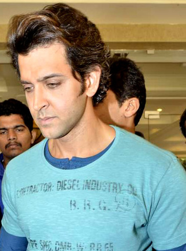 Hrithik Roshan in 2013